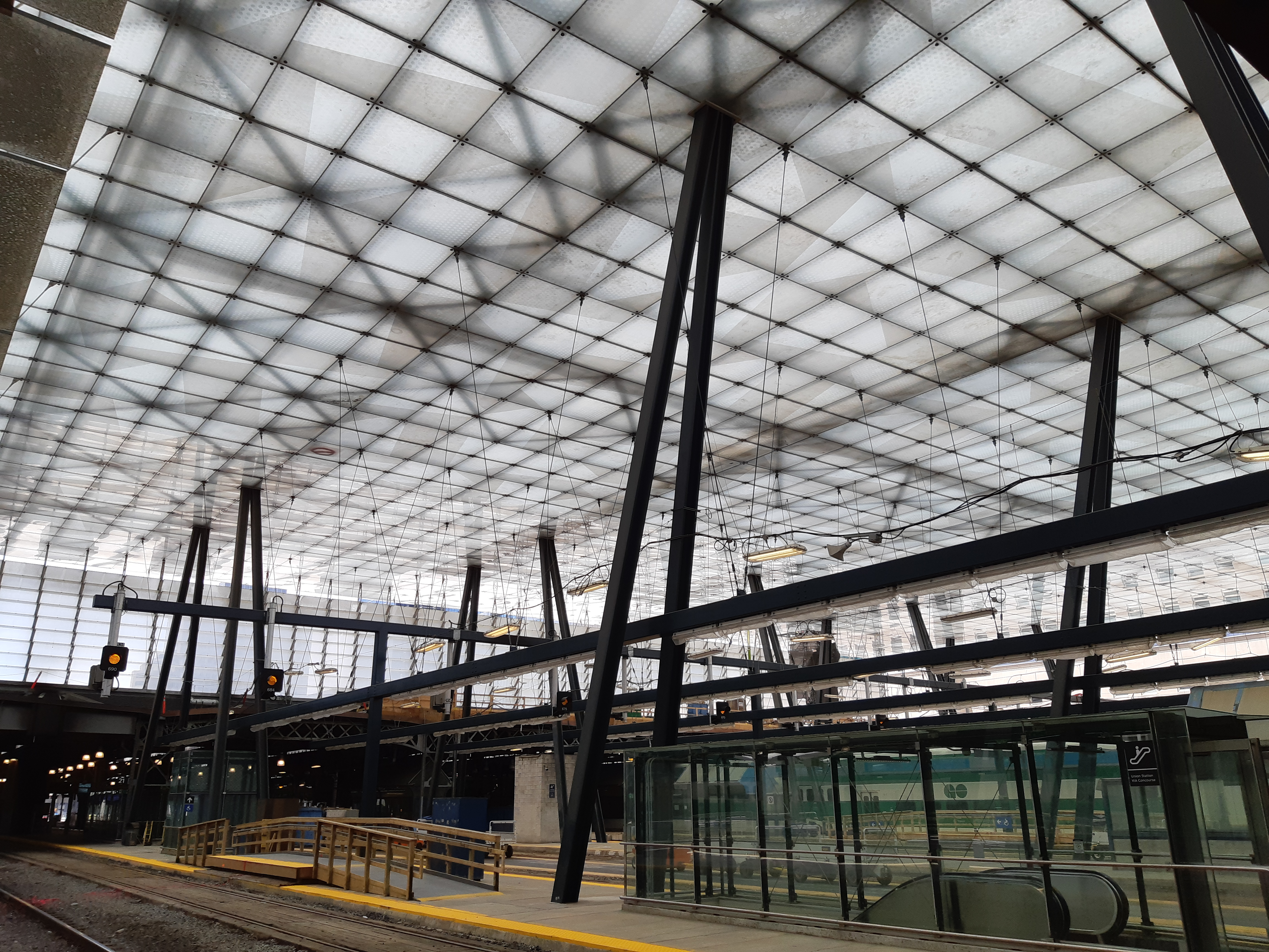 As part of the revitalization project of Toronto Union Station, a new glass roof was installed above the central part of the train platforms